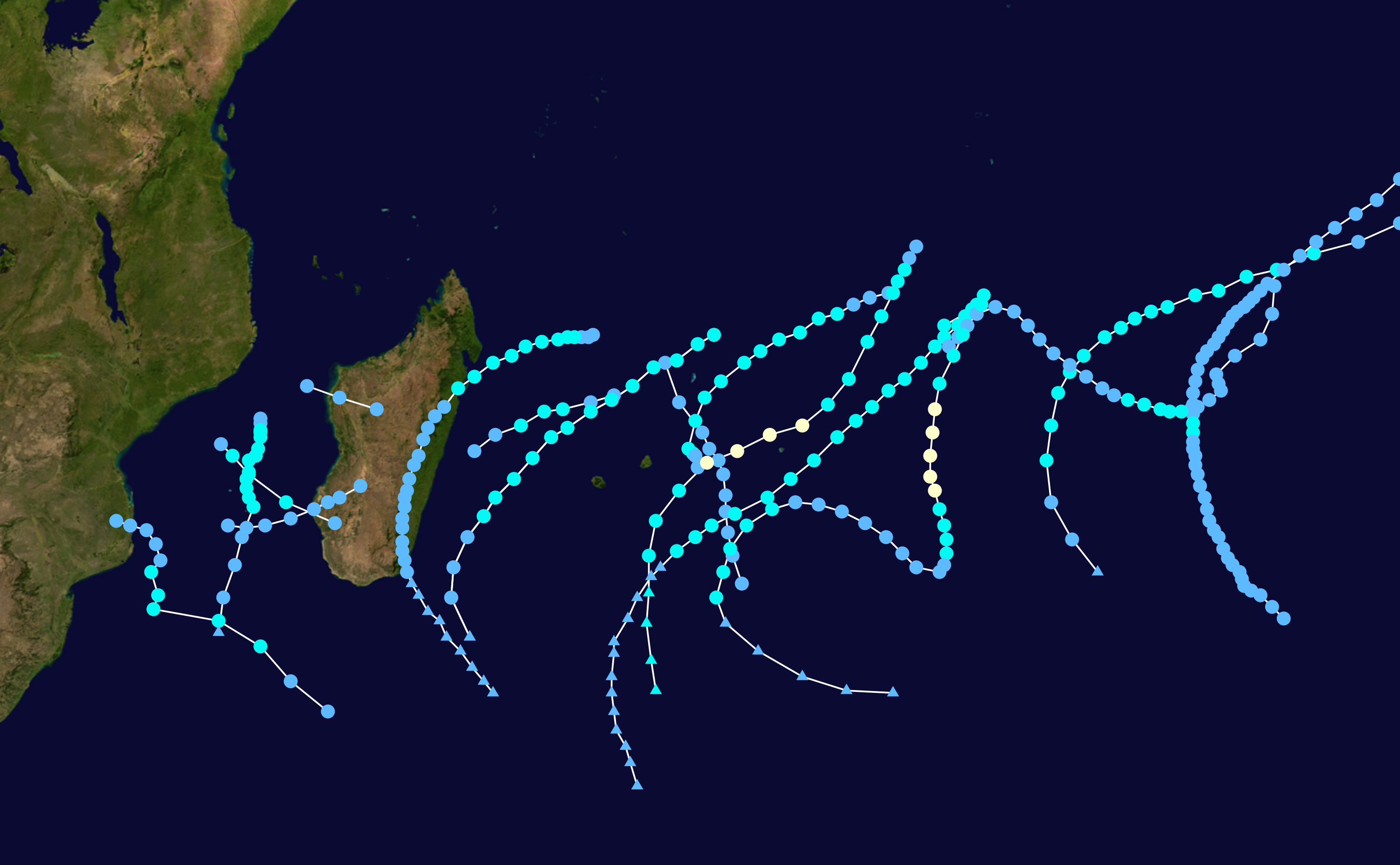 This map shows the tracks of all tropical cyclones in the 1964-65 South-West Indian Ocean cyclone season. The points show the location of each storm at 6-hour intervals. The colour represents the storm's maximum sustained wind speeds as classified in the Saffir-Simpson Hurricane Scale (see below), and the shape of the data points represent the type of the storm. Saffir–Simpson scale Tropical depression≤38 mph≤62 km/h Category 3111–129 mph178–208 km/h Tropical storm39–73 mph63–118 km/h Category 4130–156 mph209–251 km/h Category 174–95 mph119–153 km/h Category 5≥157 mph≥252 km/h Category 296–110 mph154–177 km/h Unknown Storm typeTropical cycloneSubtropical cycloneExtratropical cyclone / Remnant low / Tropical disturbance